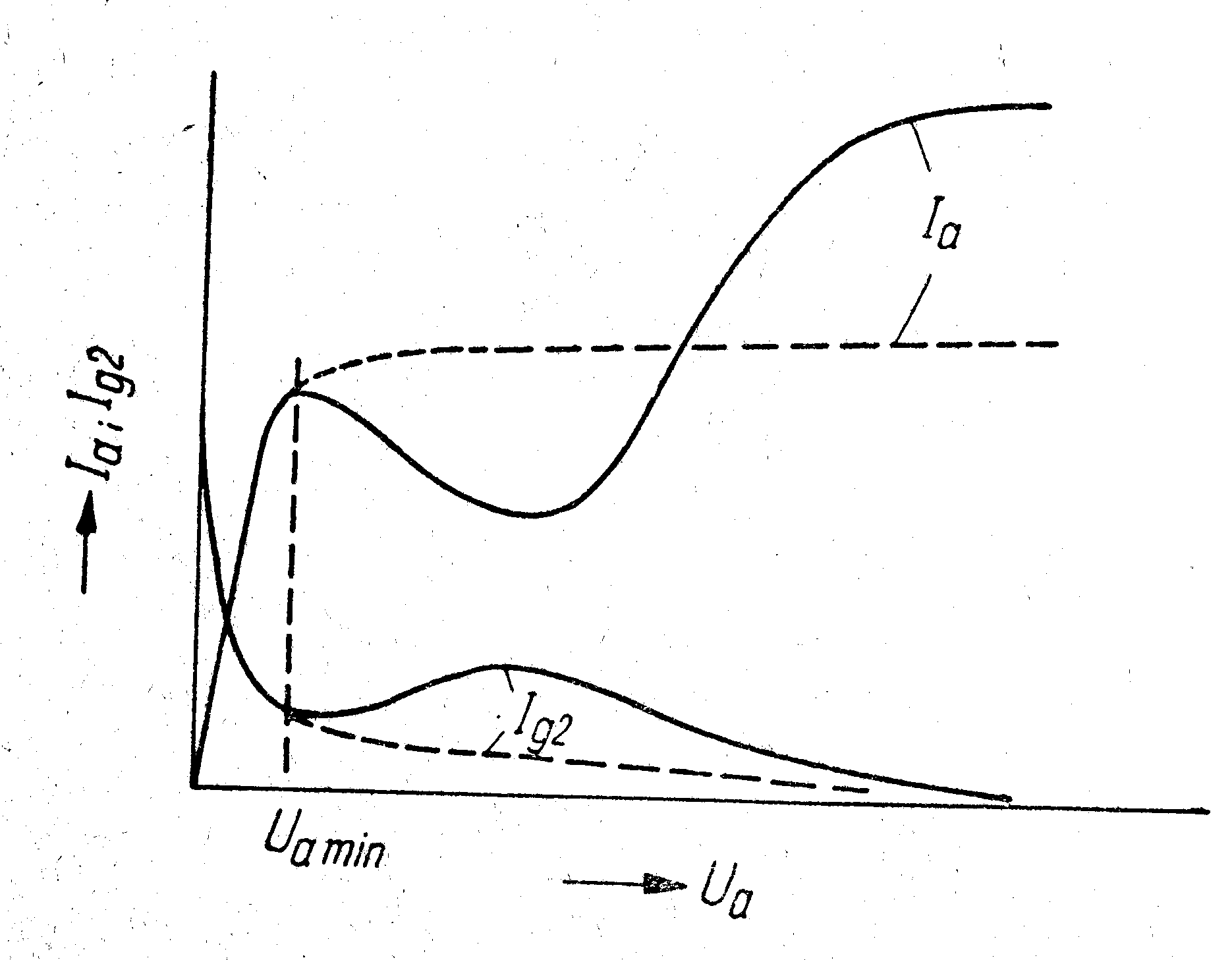 Tetrode anode characteristic